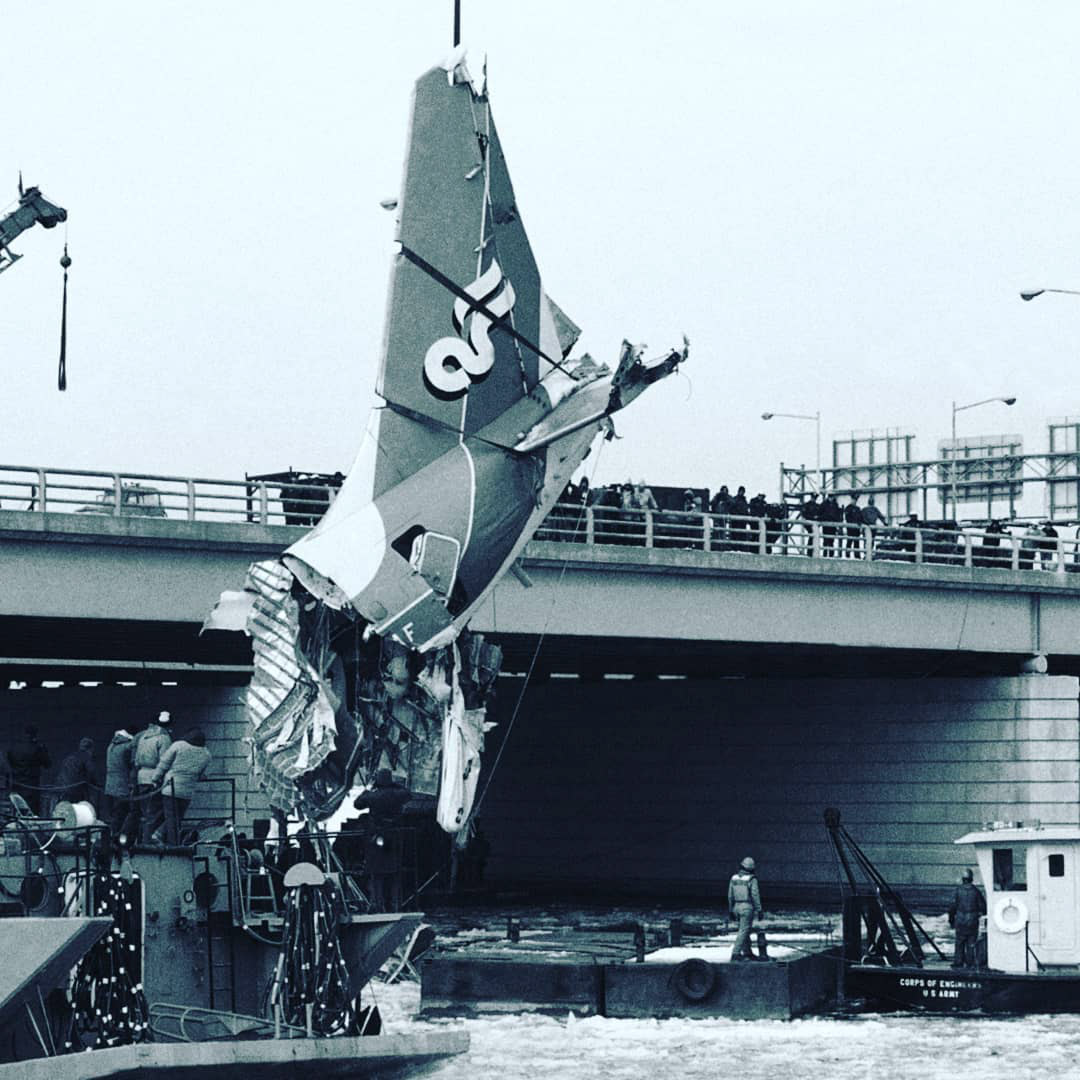 Recovery of Air Florida Flight 90's tail section